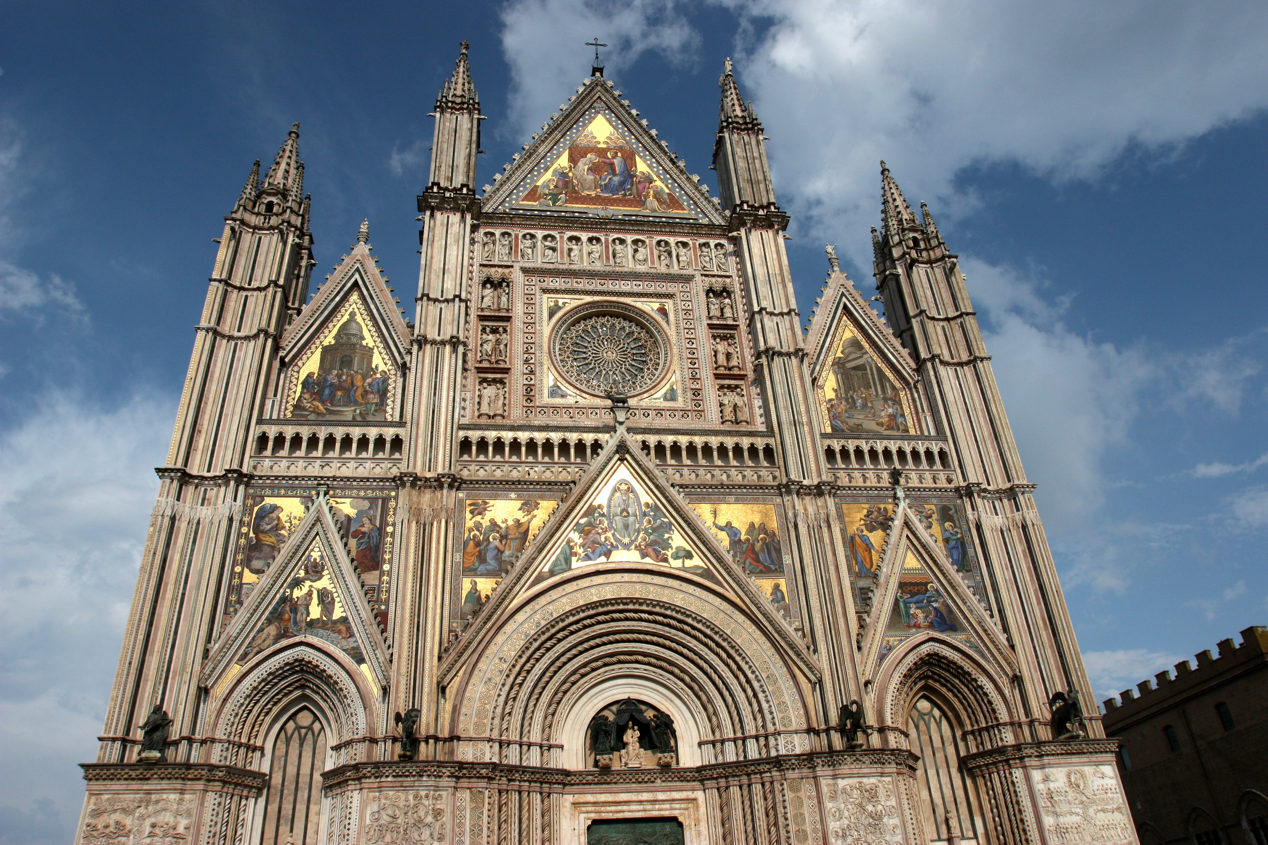 Facade of Orvieto Cathedral.